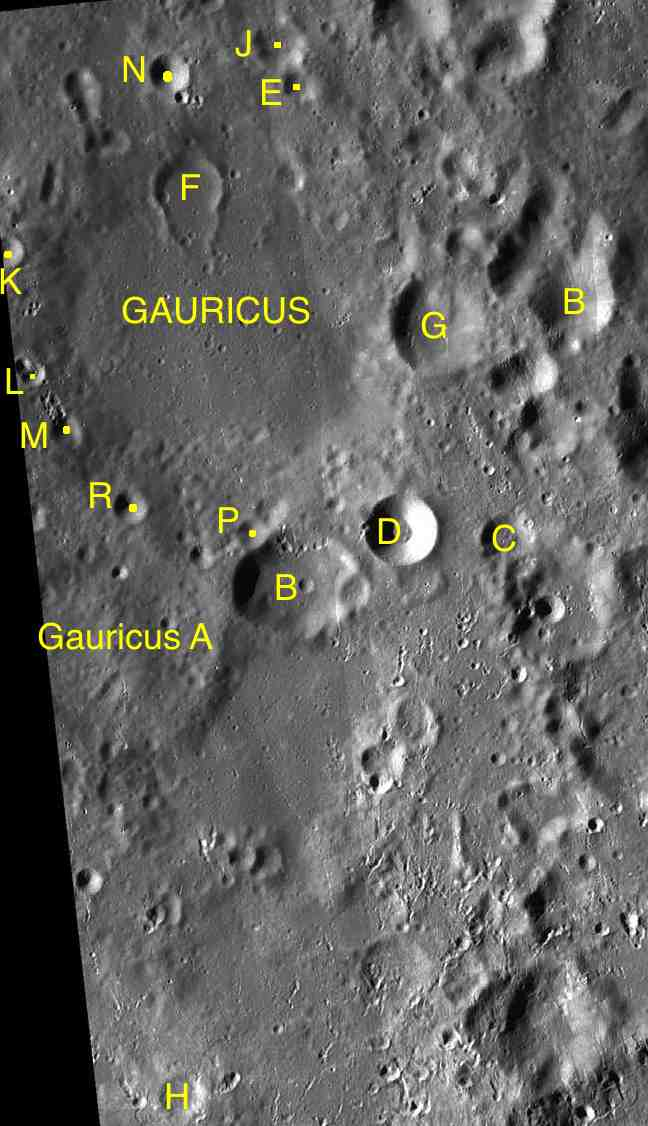 Part of the chart LAC-112 used for the presentation.